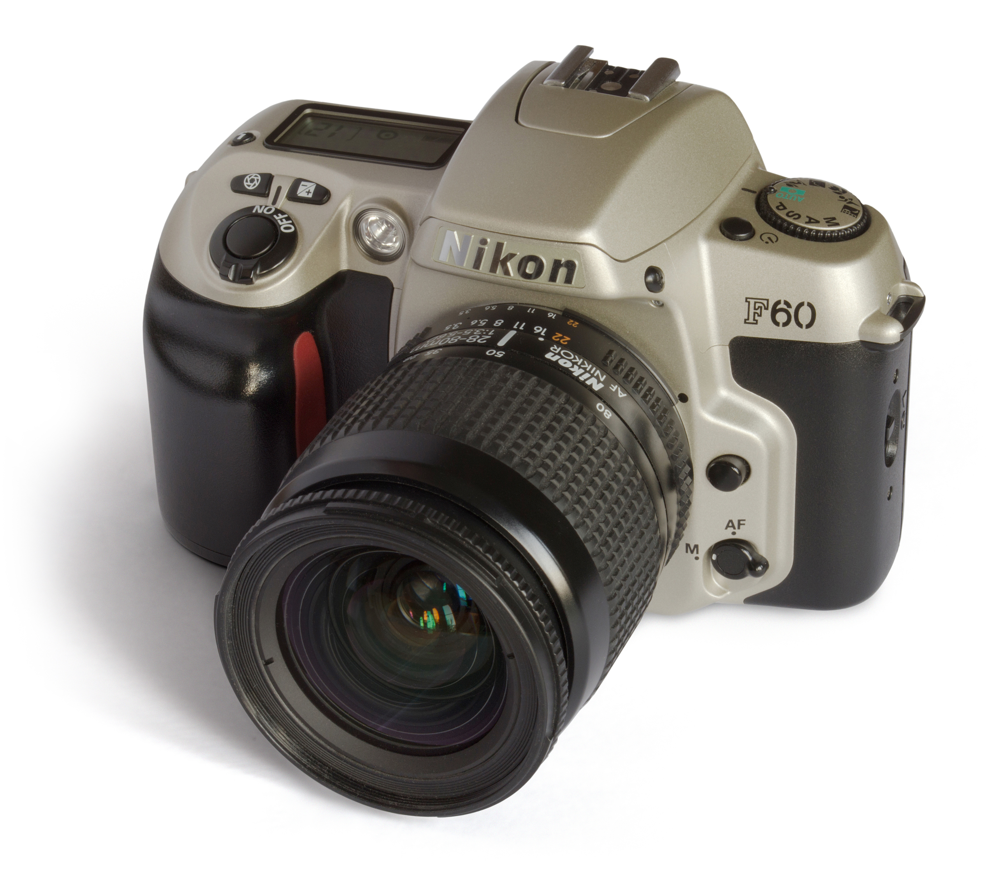 Top and front view of a Nikon F60 film SLR camera. Lens attached is Nikkor 28-80mm f/3.5-5.6D AF zoom lens, one of the two standard kit options offered when purchased in late 1998. This model was also sold as the Nikon N60 in the US.